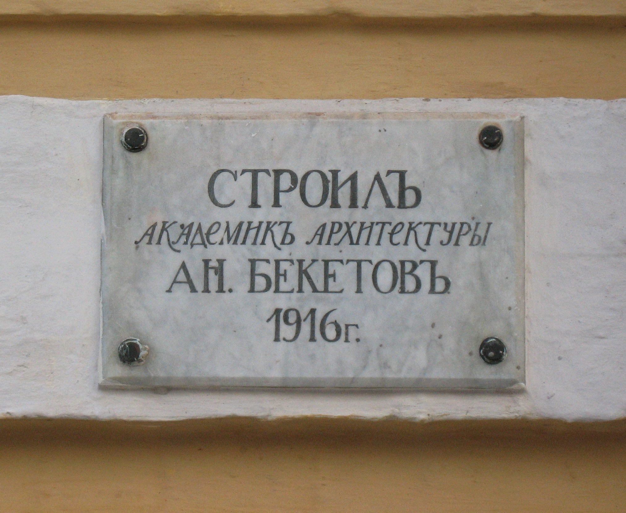 Aleksey Beketov tablet on Artema street,44, Kharkov. 1916.